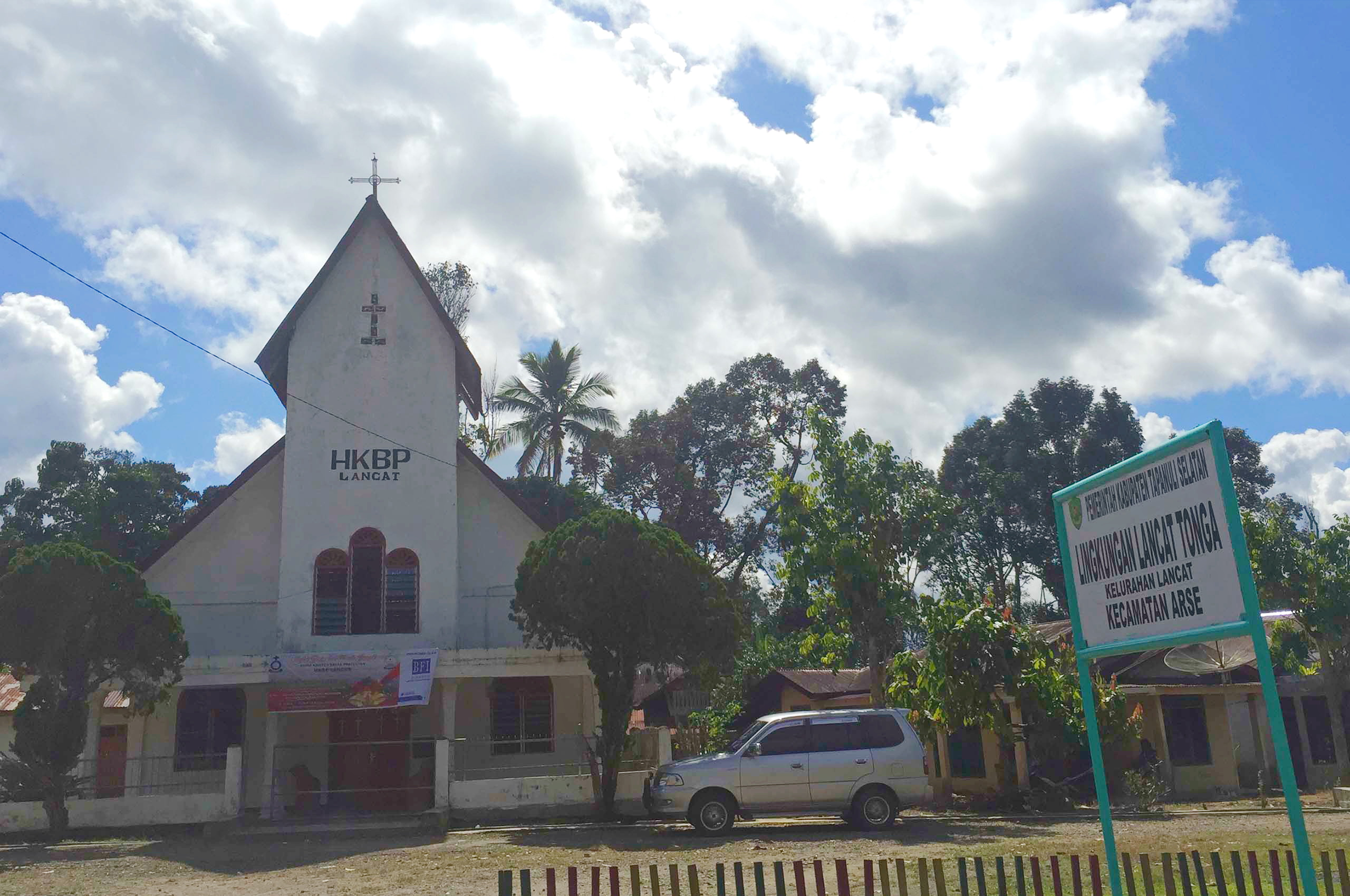 HKBP Lancat, church in Lancat